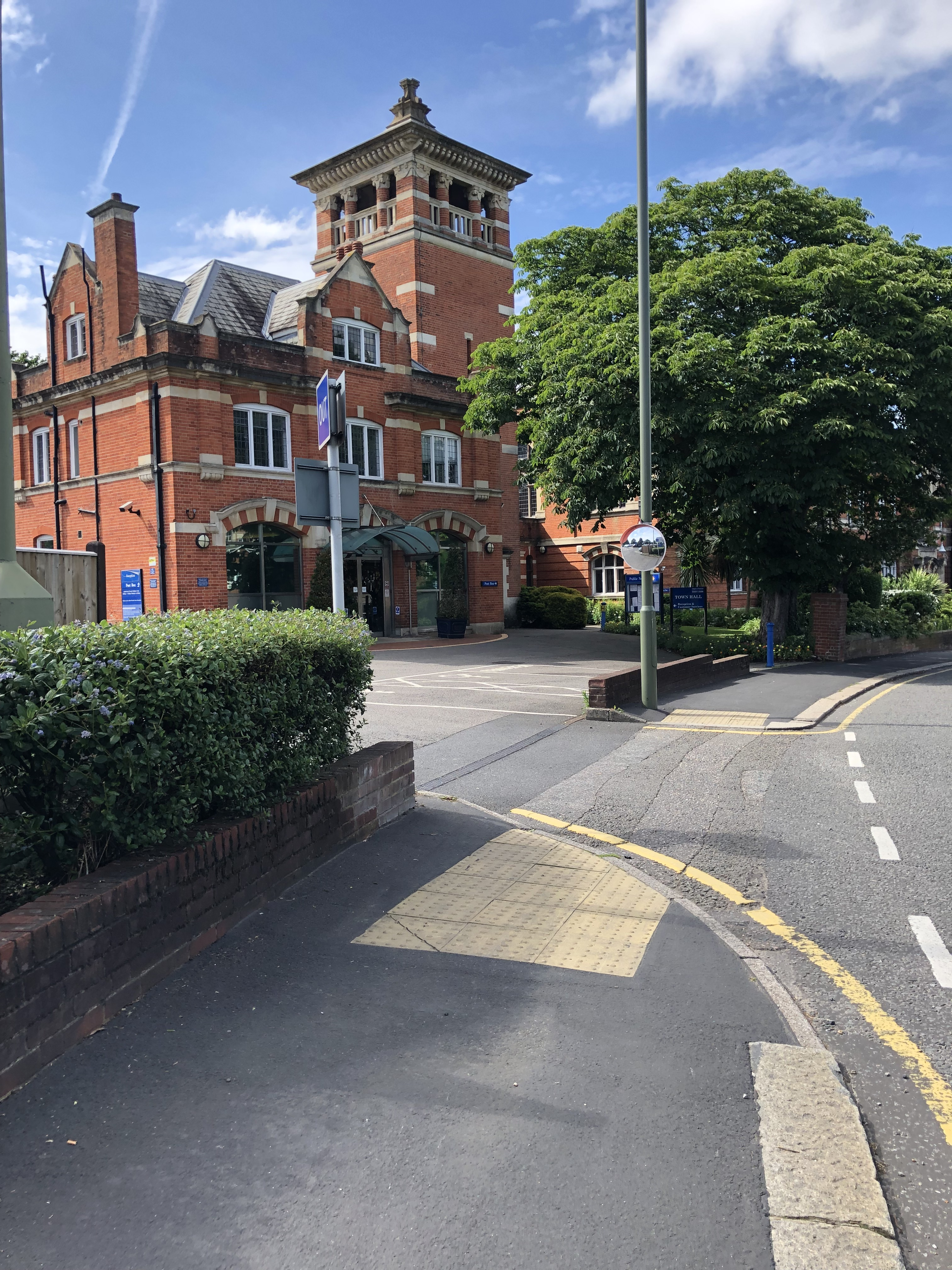 Reigate Town Hall main public entrance